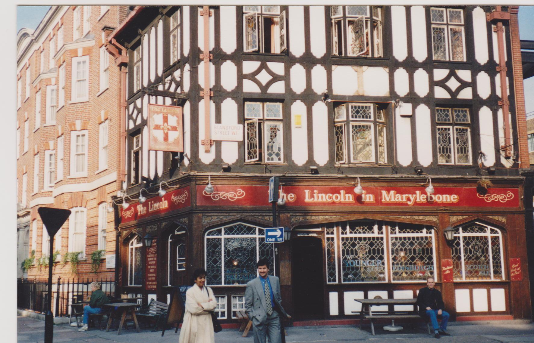 The Lincoln in Marylebone, pub in London